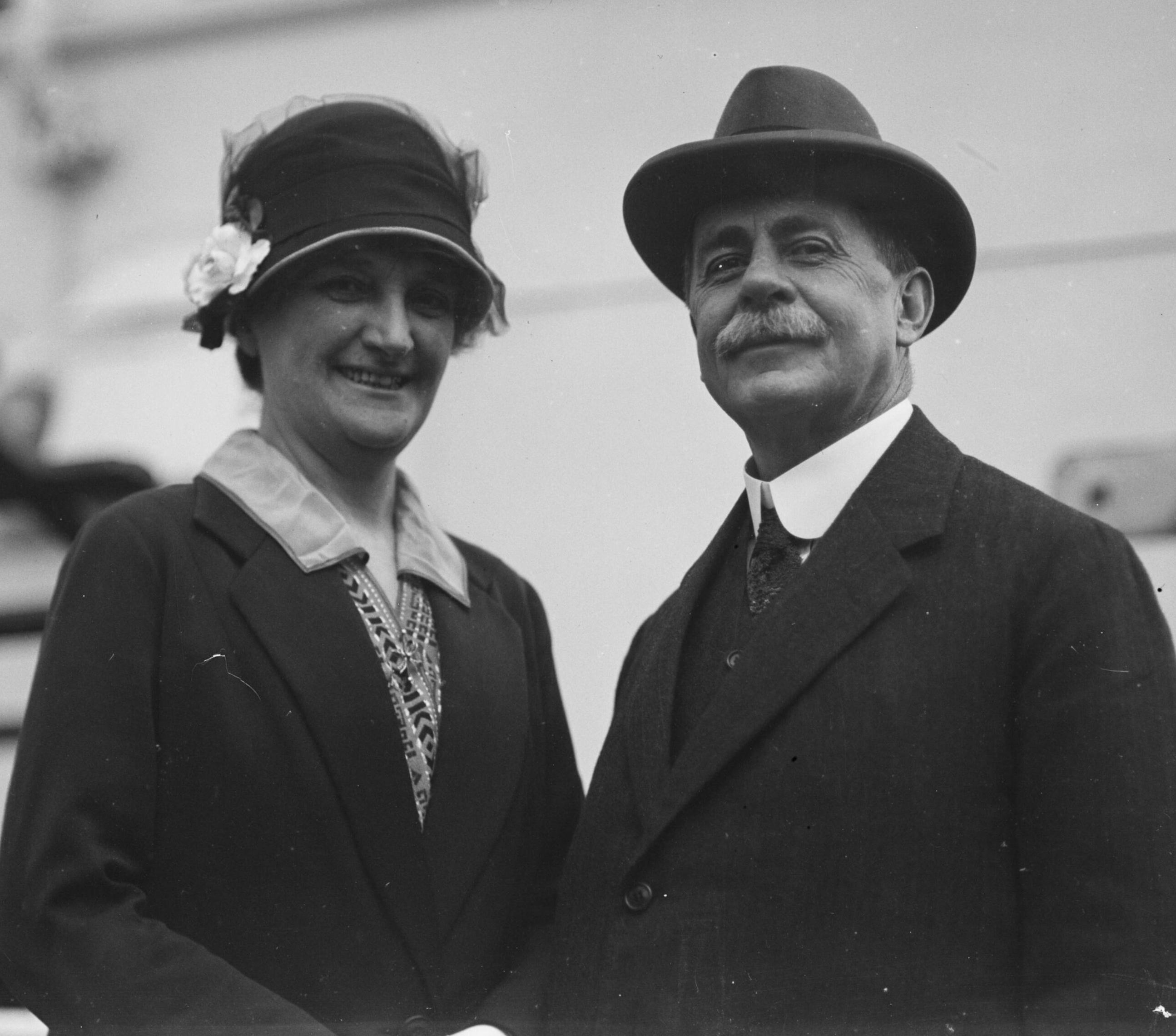 Australian politician Littleton Groom and his wife Jessie returning from an overseas trip (accompanied by their daughter) to Sydney aboard the Makura on 10 January 1925.